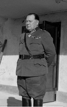 Medical Colonel Eino Suolahti.